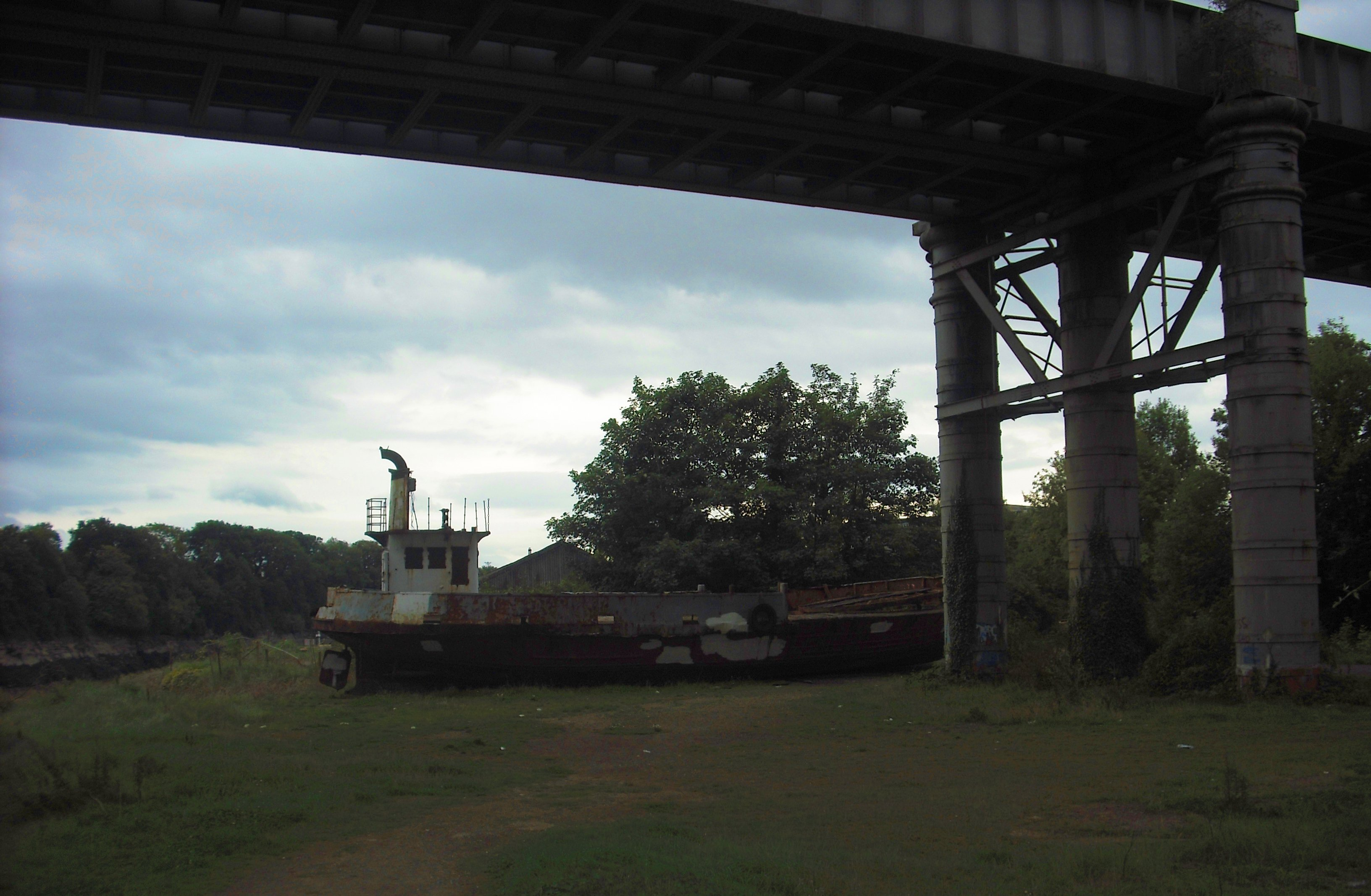 Aust Ferry Severn Princess now beached beneath Chepstow Railway Bridge.